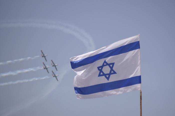 An air display above the Tel Aviv beach on the occasion of the 61st Israeli Independence Day (Yom Ha'atzmaut)